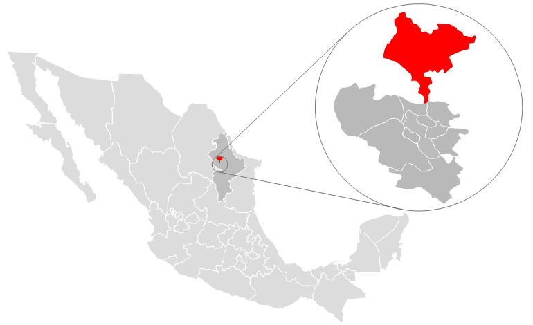 Map of location of Salinas Victoria, Mexico (red) within the country and state of Nuevo Leon. Dark gray surrounding the city shows the Monterrey metropolitan area. Map designed by Alex Covarrubias.